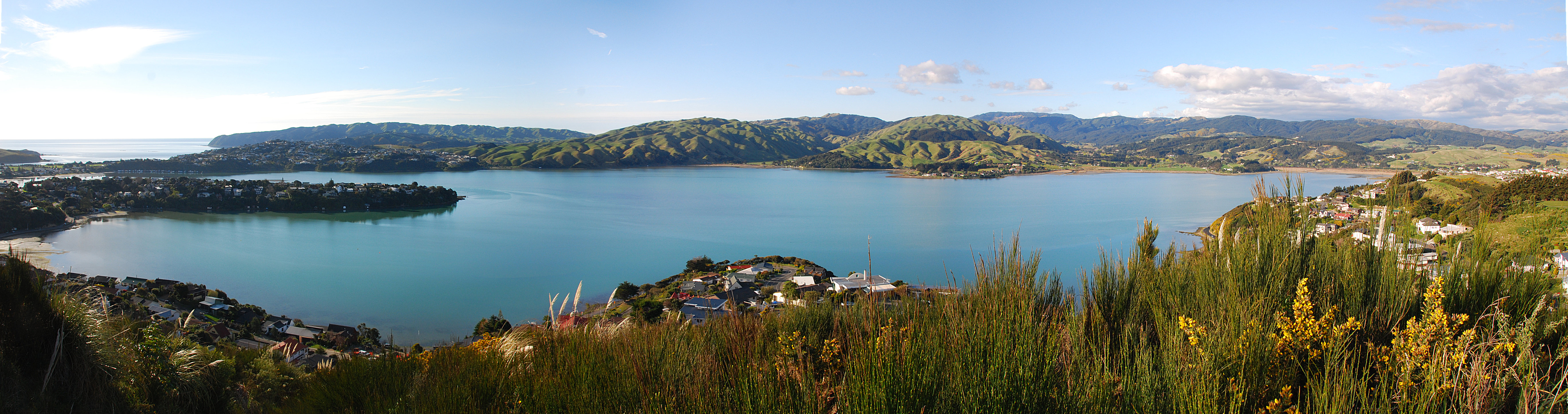 Panorama of the Pauatahanui Inlet, an arm of the Porirua Harbour.